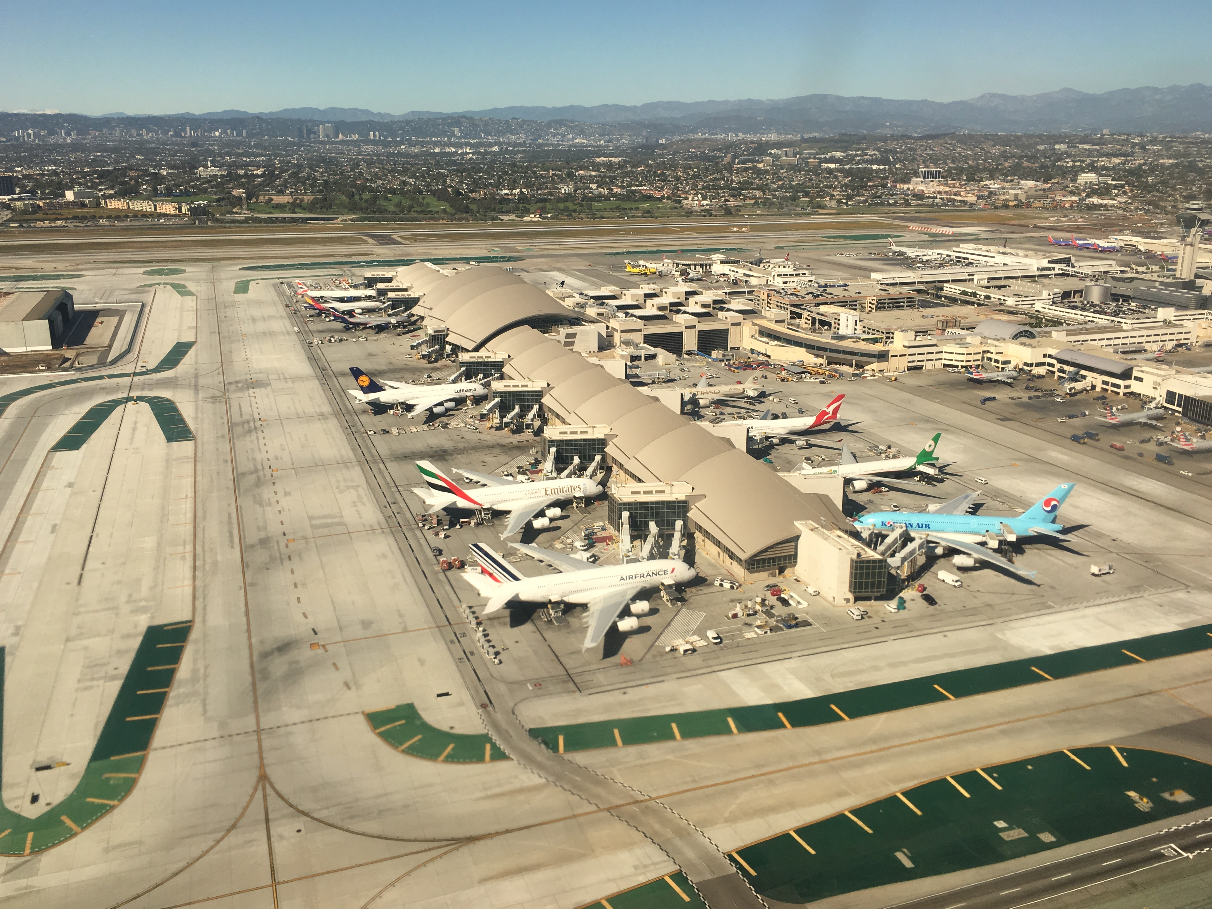 Several aircraft shown at Tom Bradley International terminal from a departing flight in March 2016